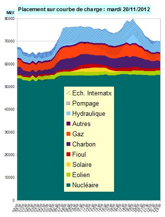 Dispatching power plants on the French load curve (merit order), tuesday 20th nov. 2012 (hachured : export and pumping) data source : RTE (french grid operator)